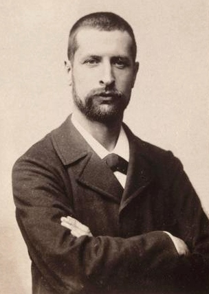 Photographed by Pierre Petit (1831-1909) Title